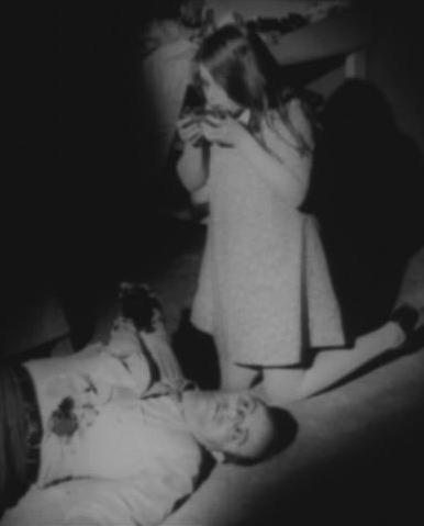 cropped frame of Night of the Living Dead screenshot -- a young zombie (Kyra Schon) and her victim (Karl Hardman).